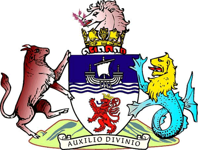 coats of arms of Devon, England. The Latin motto reads: "With God's help".